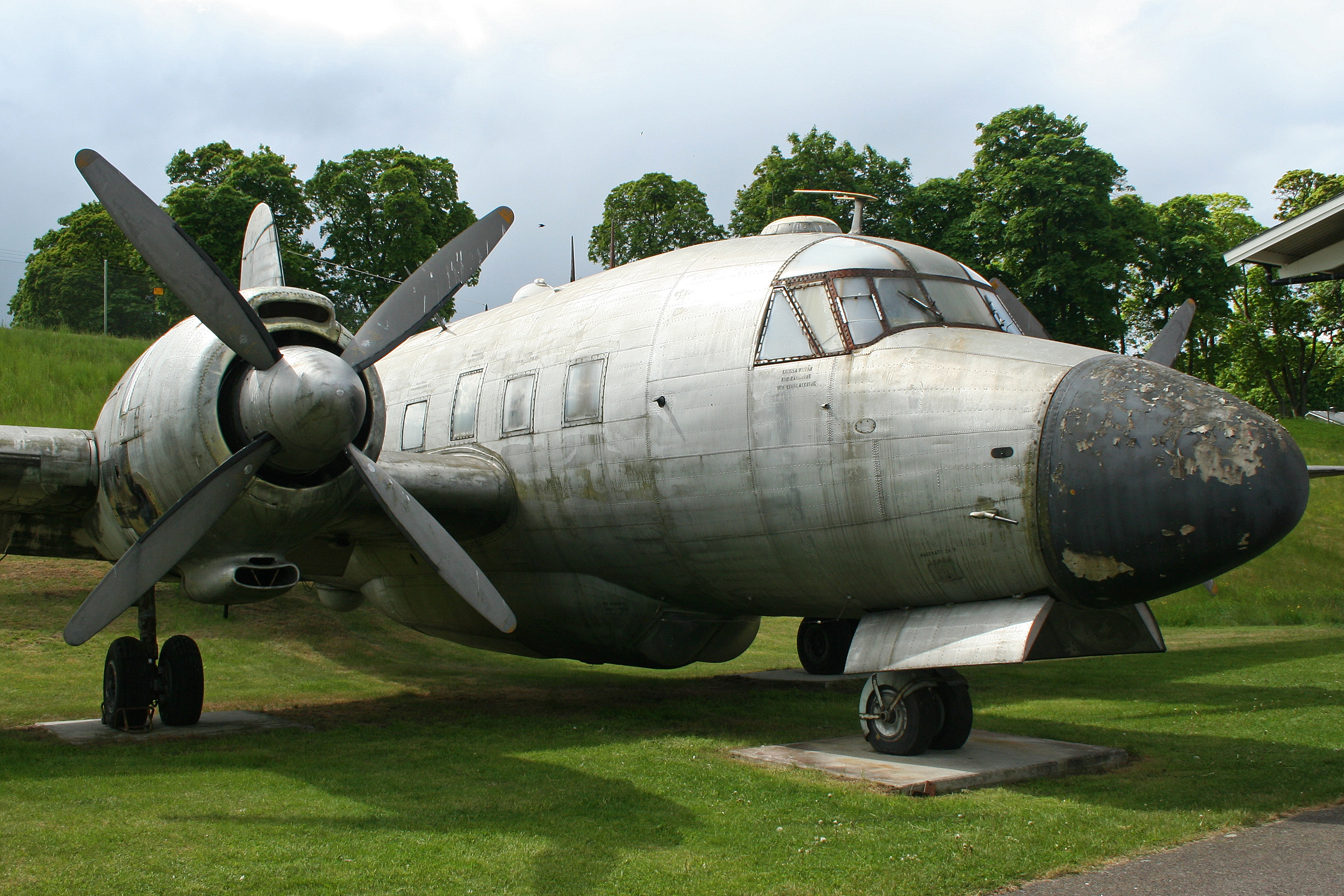 Rather weather worn, this Varsity is bear metal and lives outside. Previously RAF 'WJ900'. msn 622. Flyvapenmuseum, Malmen. 04-6-2012